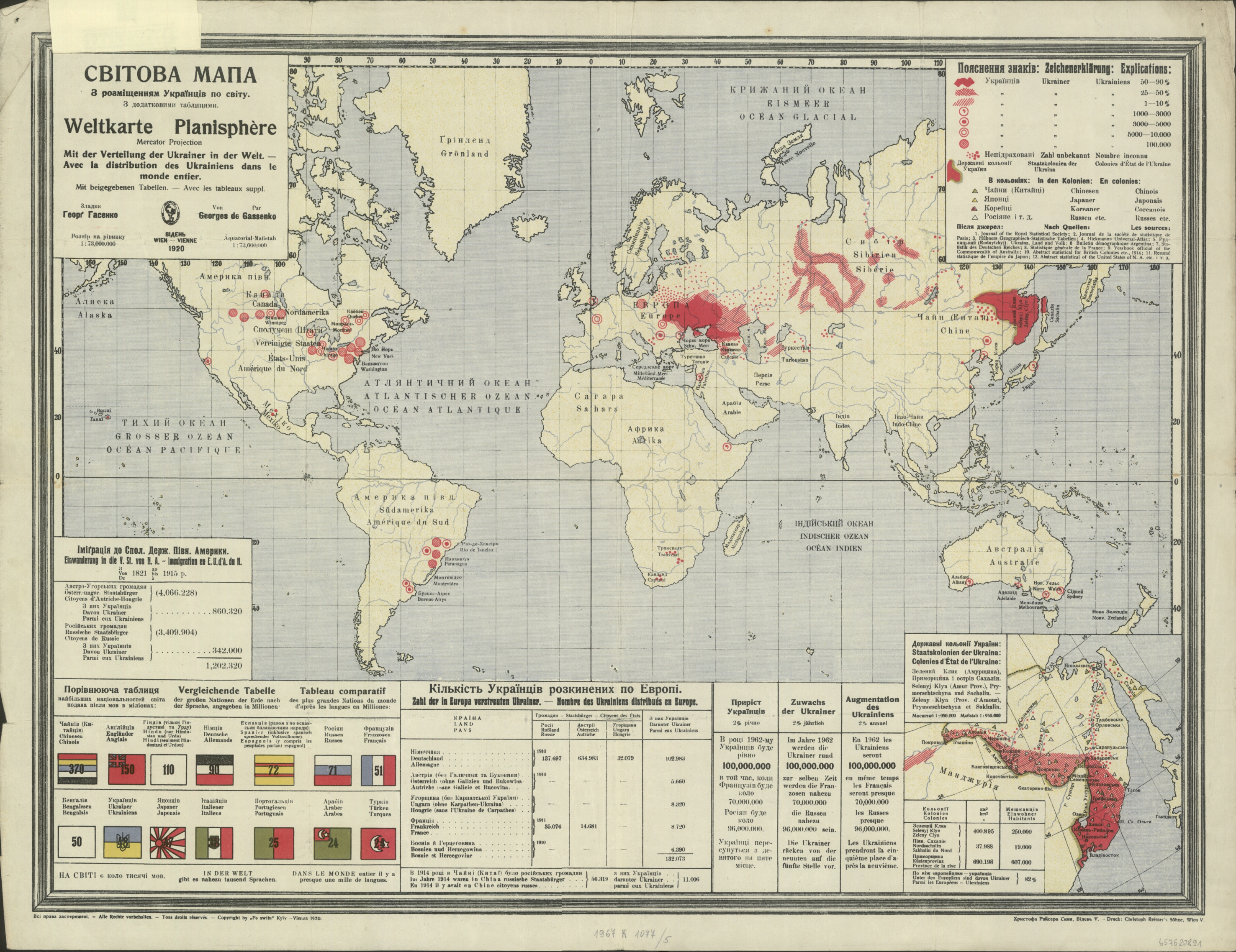 Map "World map with placement of Ukrainians in the world" (= "Weltkarte mit der Verteilung der Ukrainer in der Welt" = "Planisphère avec la distribution des Ukrainiens dans le monde entier") by Yuri Hasenko published by "Christoph Reisser's Söhne" in Vienna in 1920. Copyright belonged to "Po switu" Kyїv.